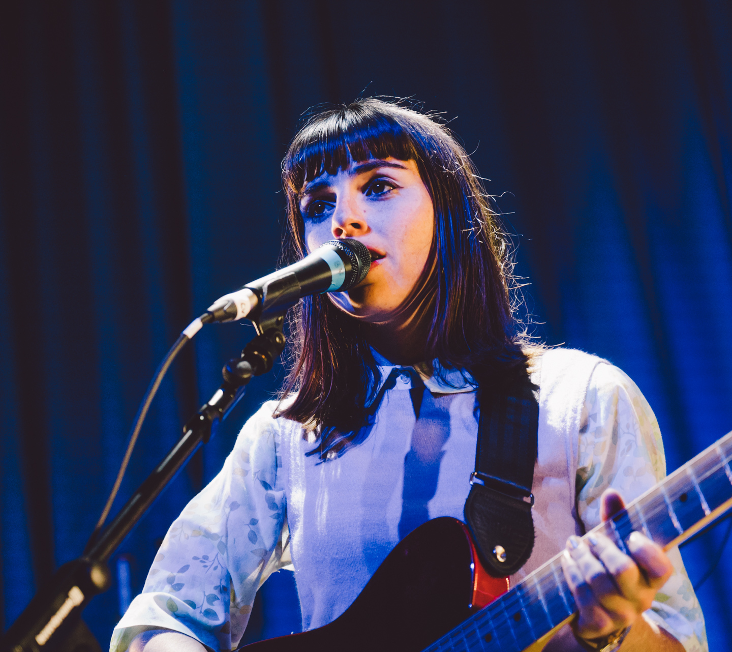 The Great Escape 2017 Day 3: Hazel English